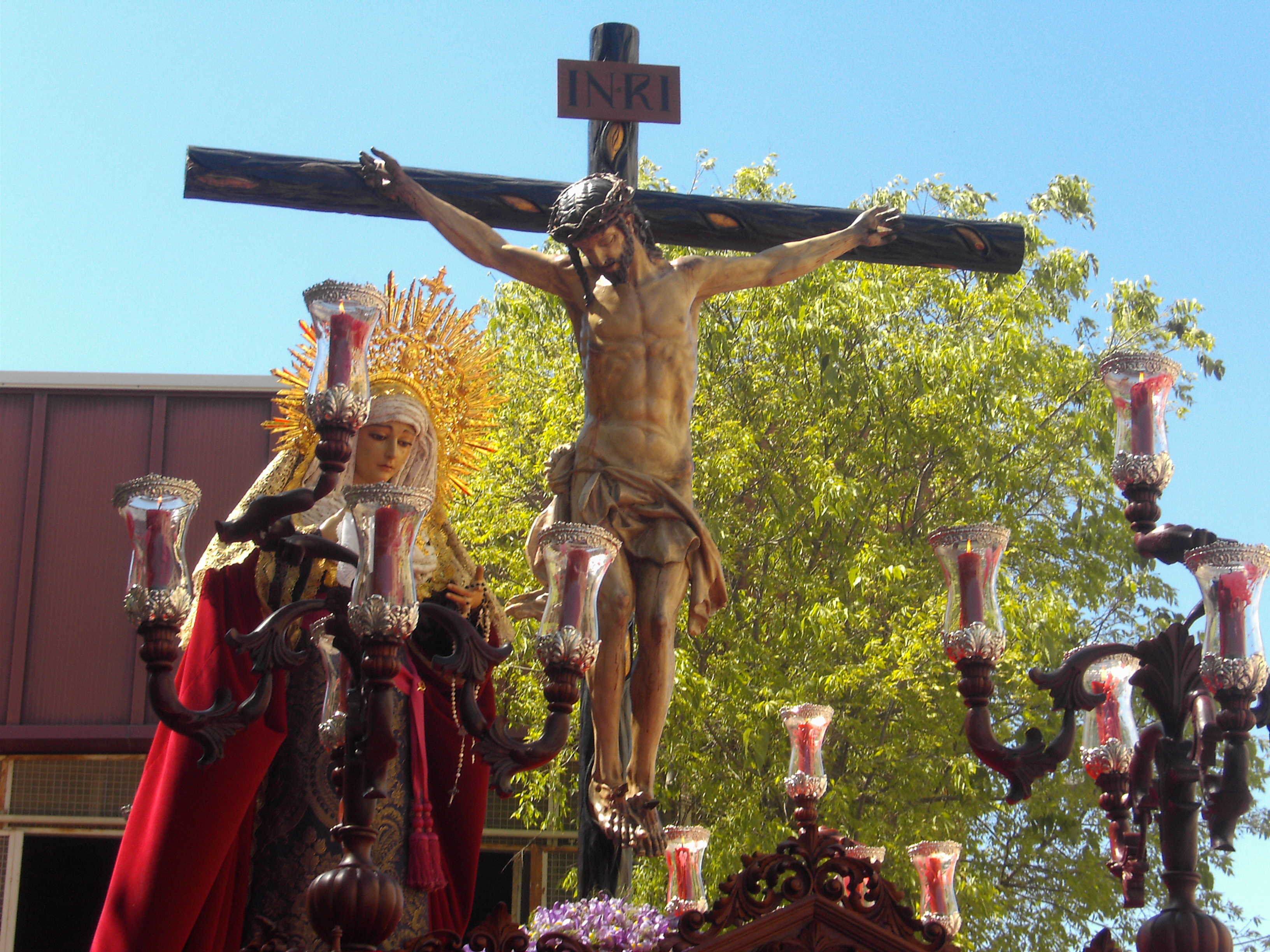 Hermandad del Perdón en el Lunes Santo 2009